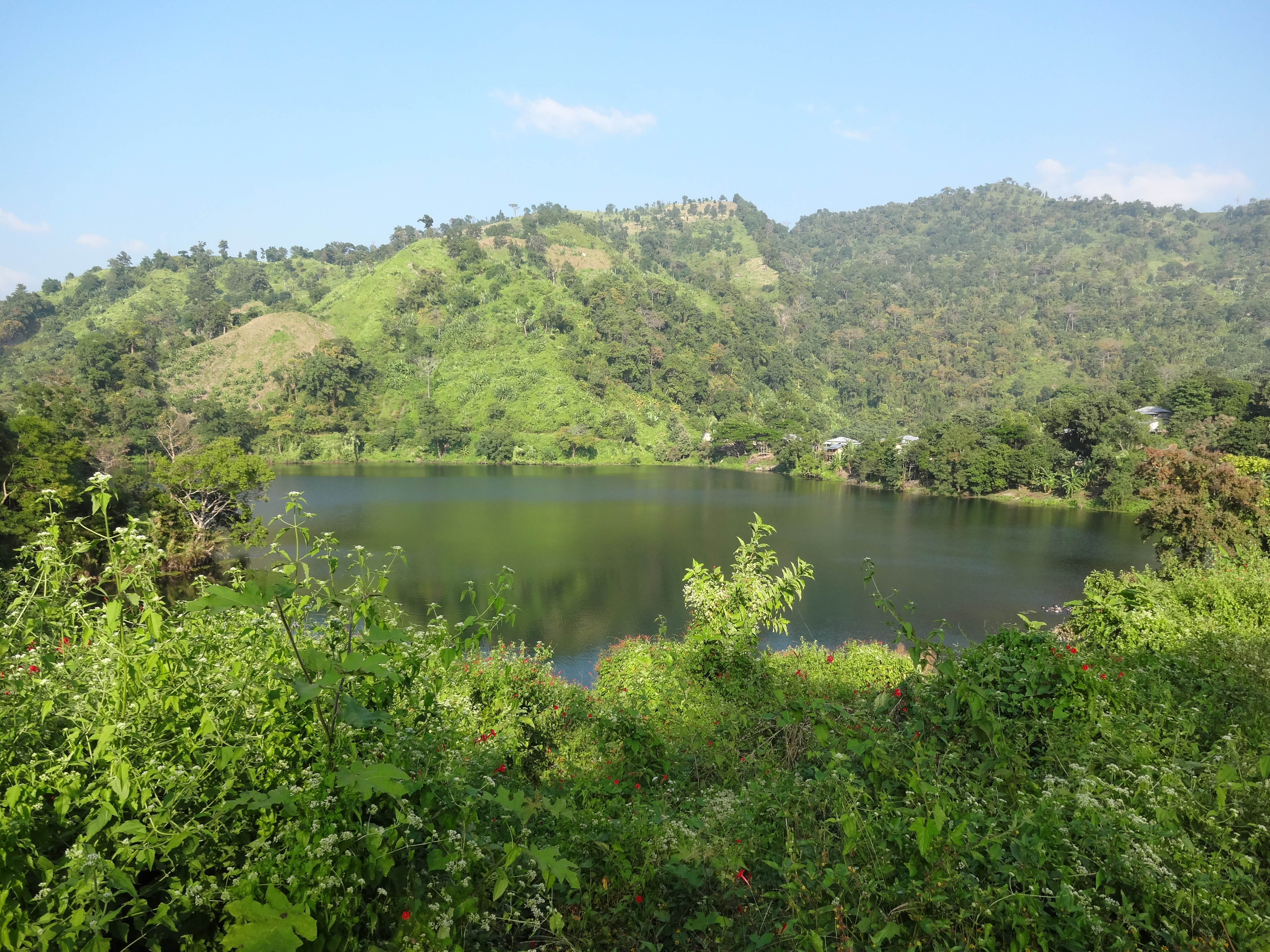 Boga Lake at Bandarban, Bangladesh